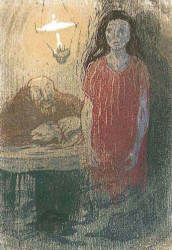 Colour woodcut by Thorbjørn Egner, used to illustrate Hans E. Kincks novella Høstnætter in the collection Hvitsymre i utslaatten (1946). Please credit the artwork as Woodcut: Thorbjørn Egner.